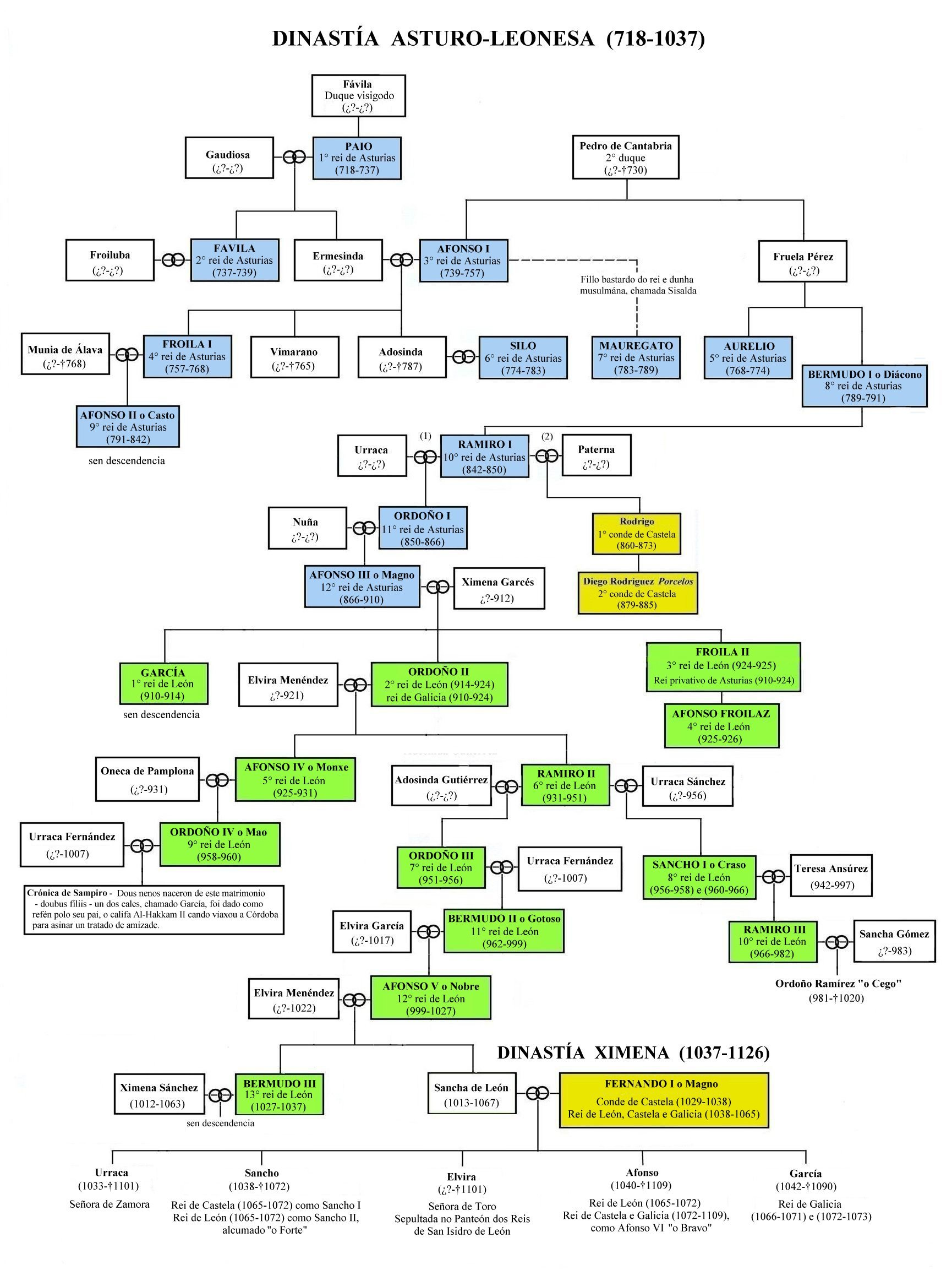 Chronological diagram of Asturian-Leonese monarchs (718-1037)